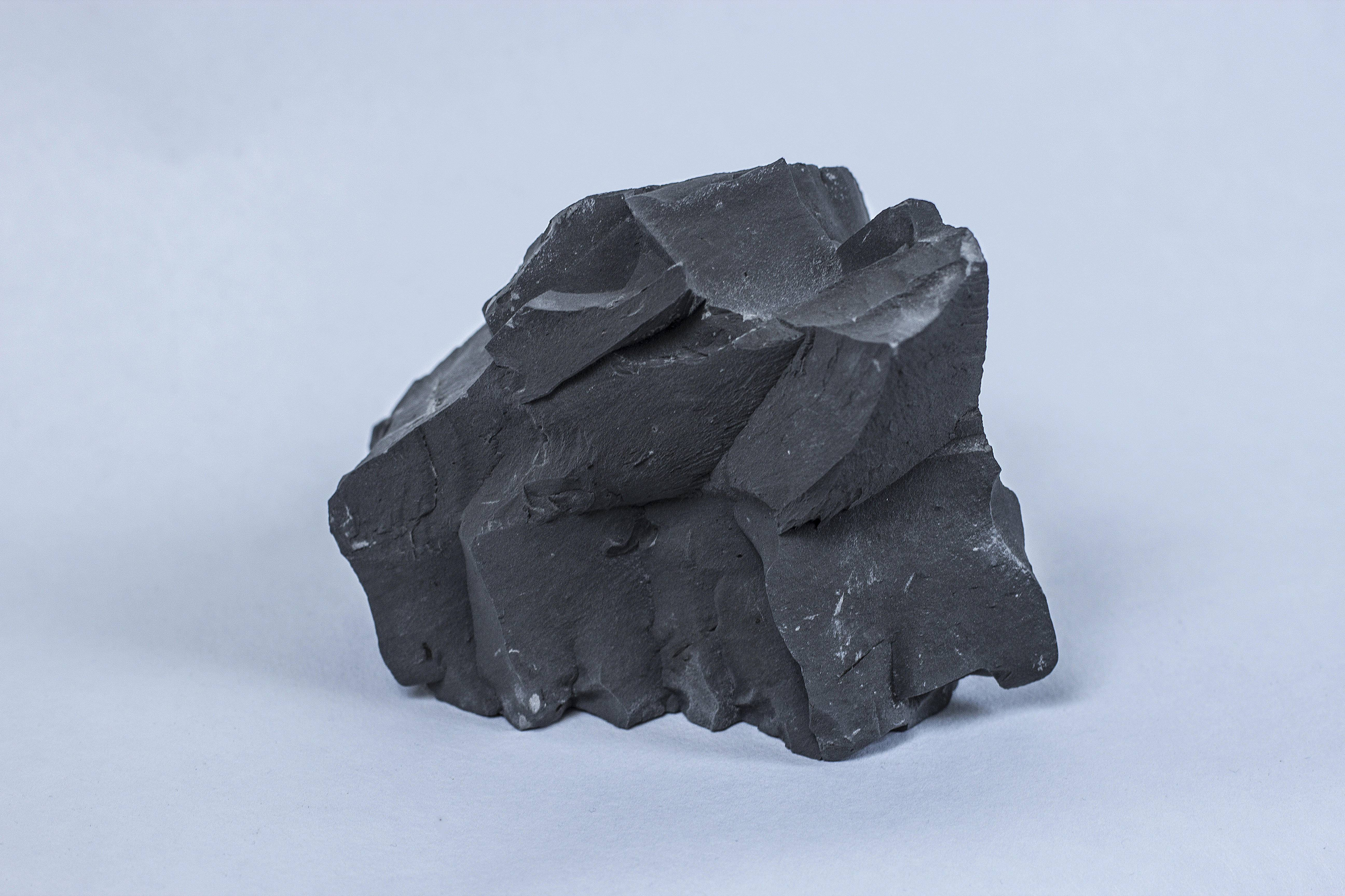 This claystone comes from the Underground Research Laboratory sited at Bure in the Meuse district, France, aiming at studying the feasibility of the reversible geological disposal of high-level and long-lived intermediate-level radioactive waste. It is a Callovo-Oxfordian Jurassic marine sedimentary rock formation, grey, about – 165 Ma.